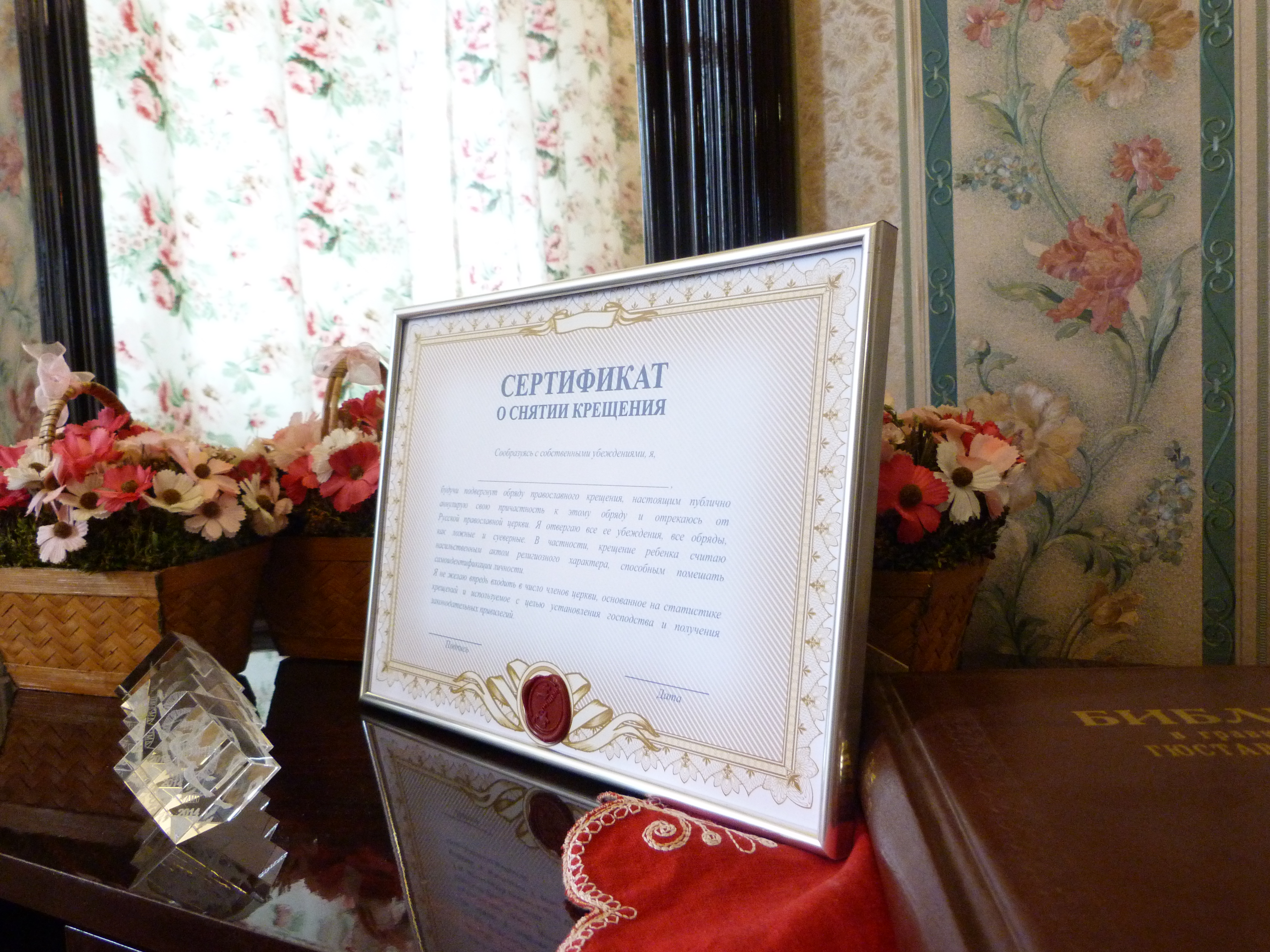 Russian certificate of debaptism